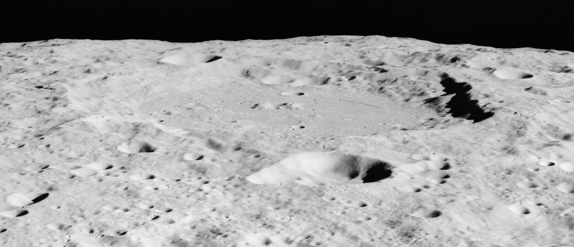 Oblique view of Chaplygin crater, on the far side of the moon, facing south.